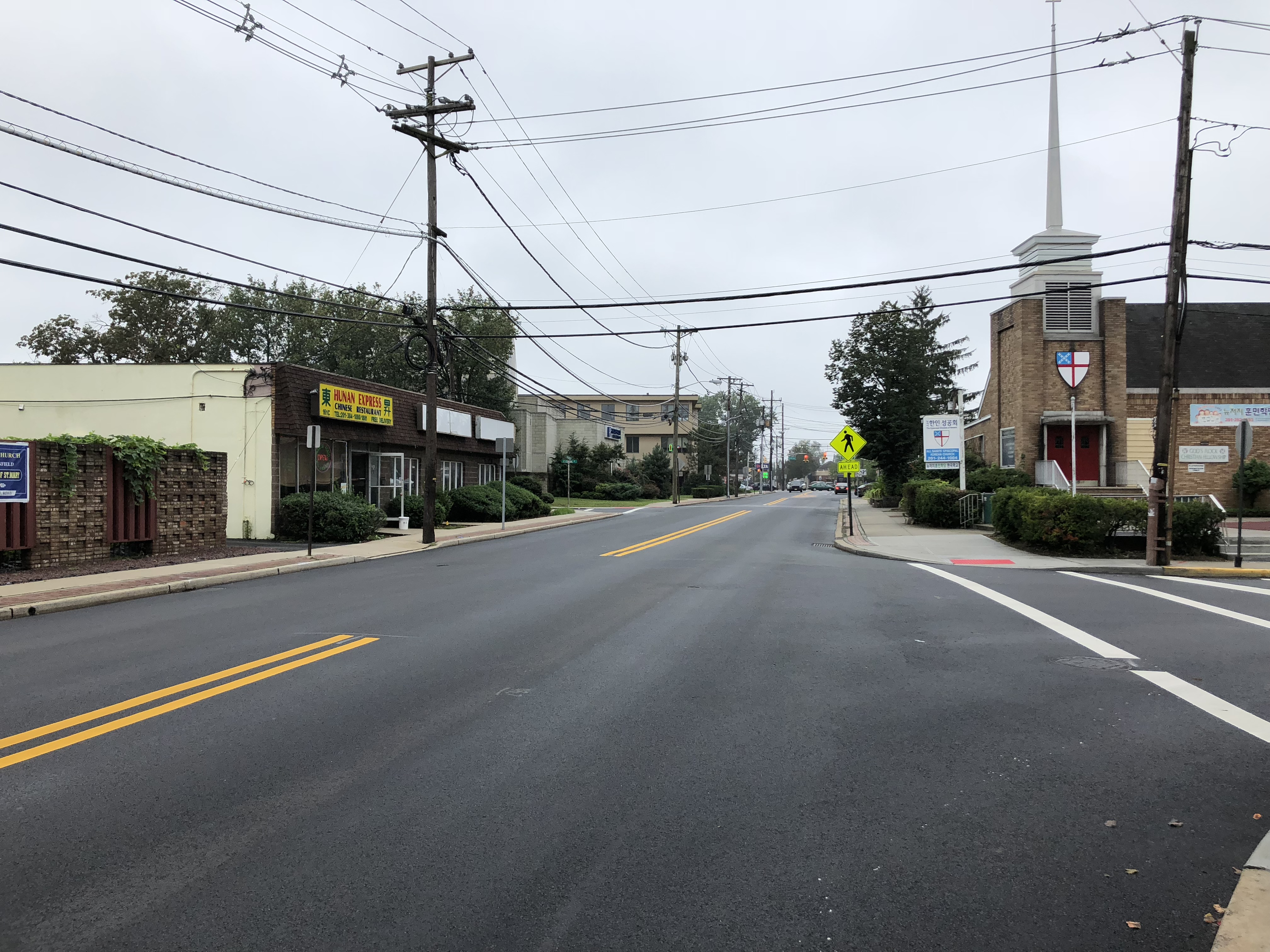 View south along Bergen County Route 39 (Washington Avenue) at Central Avenue in Bergenfield, Bergen County, New Jersey